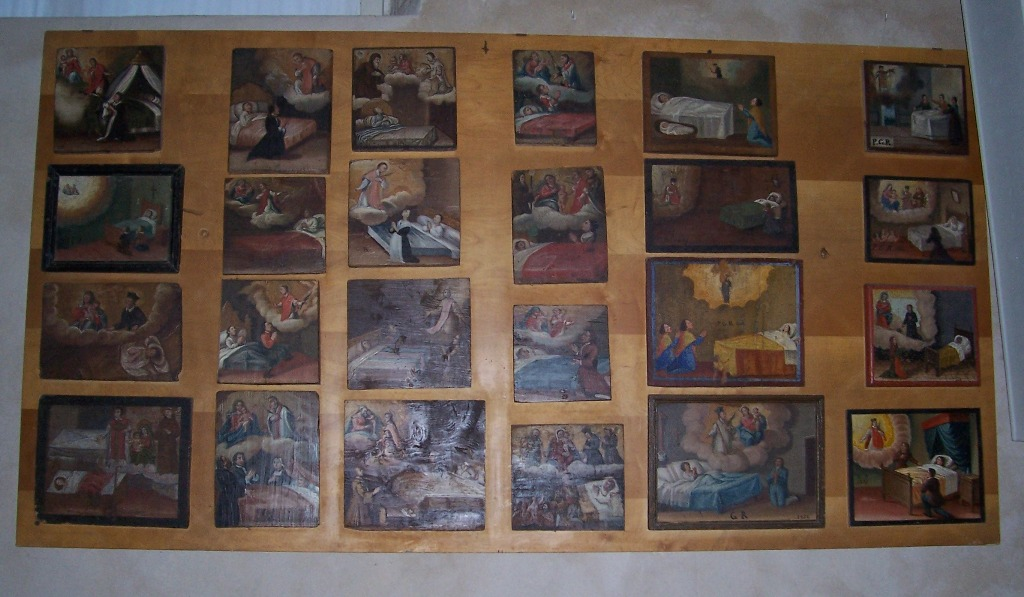 ex voto, church of St Valentin. Breno, Val Camonica